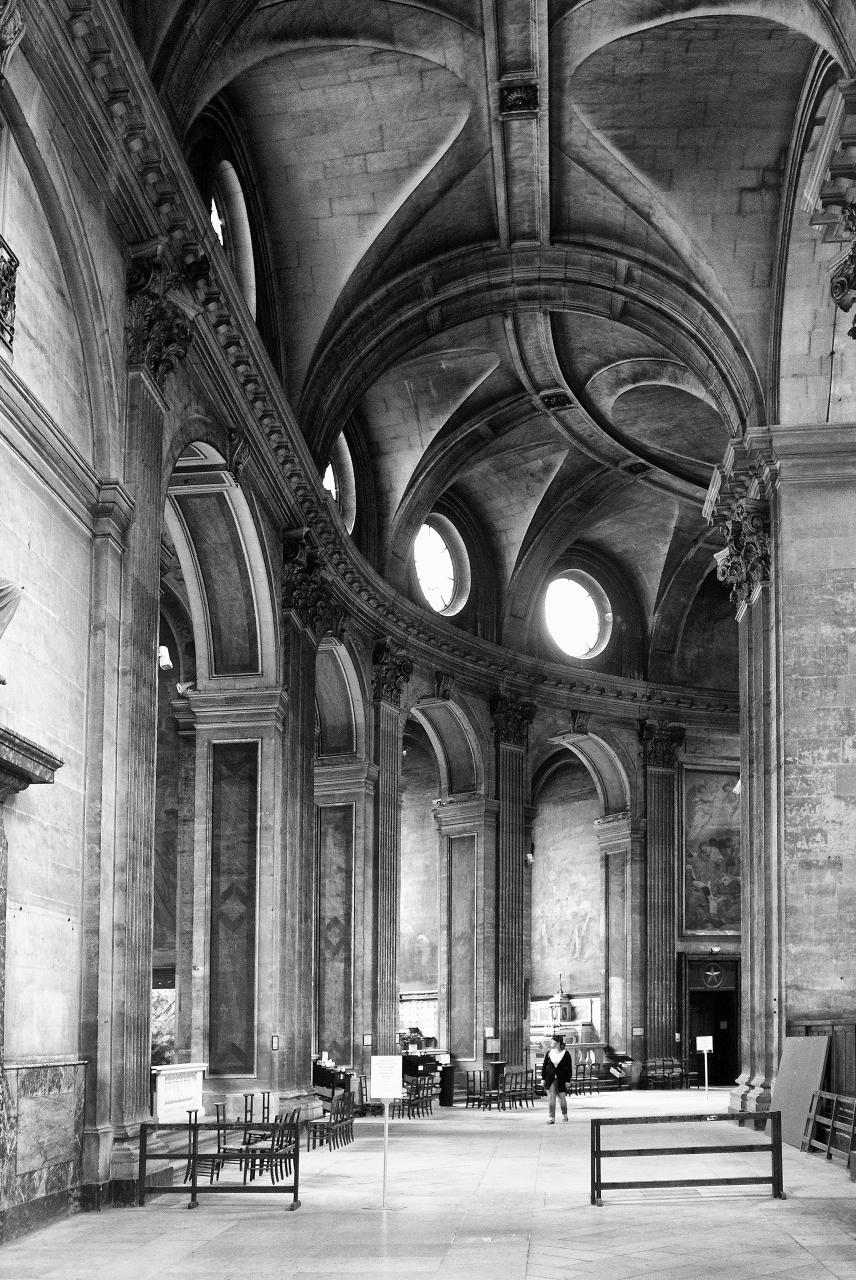 Ambulatory, Saint-Sulpice church, Paris, France.